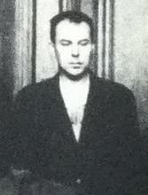 Albert Paulitz and other at the 2nd Stutthoff